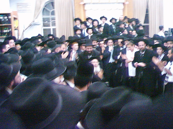 Simchas Beis HaShoeivah of the Mir Yeshivah in Jerusalem